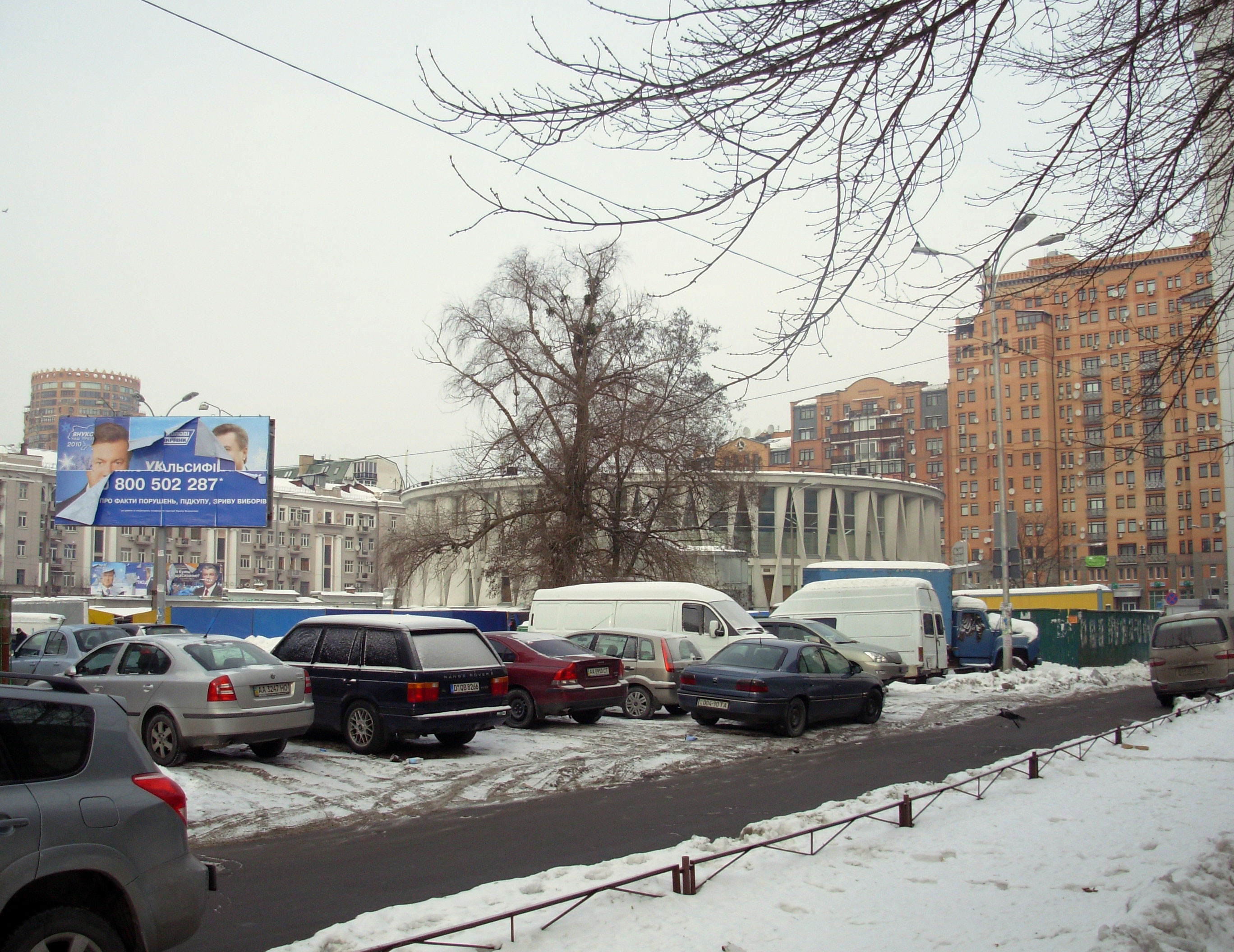 Pecherska Square in Kyiv, Ukraine